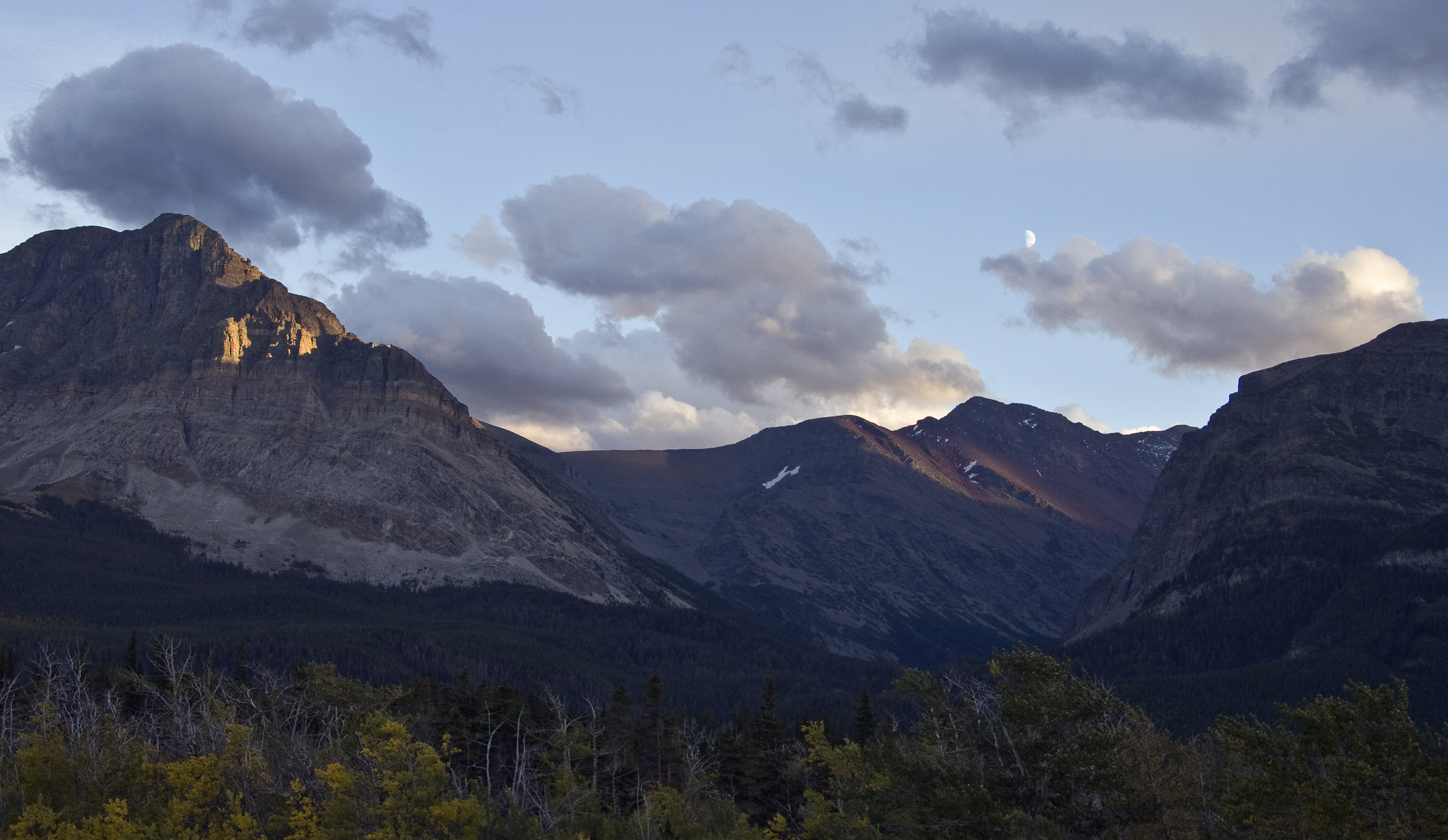 View up Cracker Canyon in Glacier National Park near west end of Lake Sherburne, Many Glacier area.